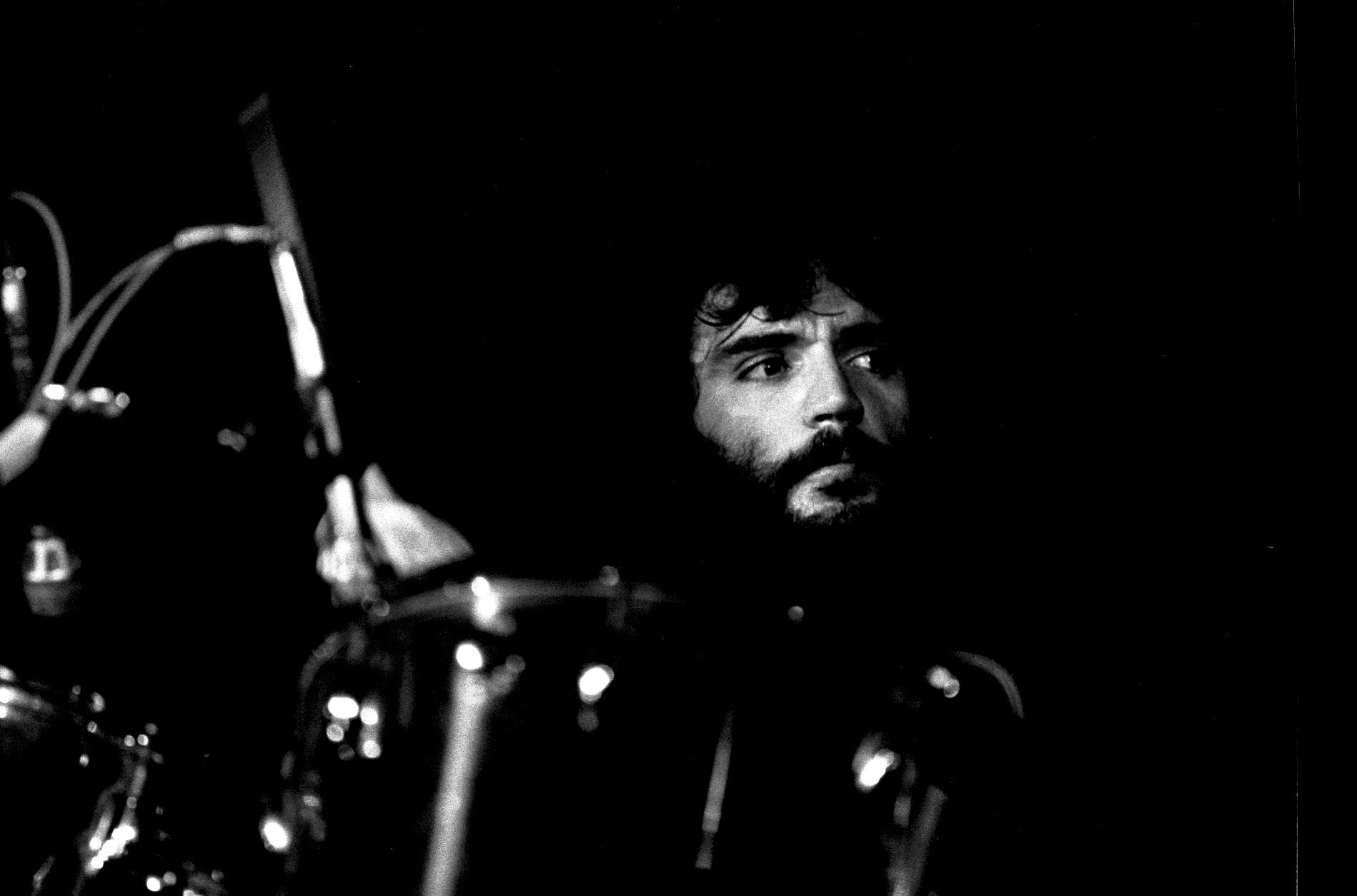 Canned Heat, Musikhalle Hamburg, März 1974: Drummer Fito de la Parra